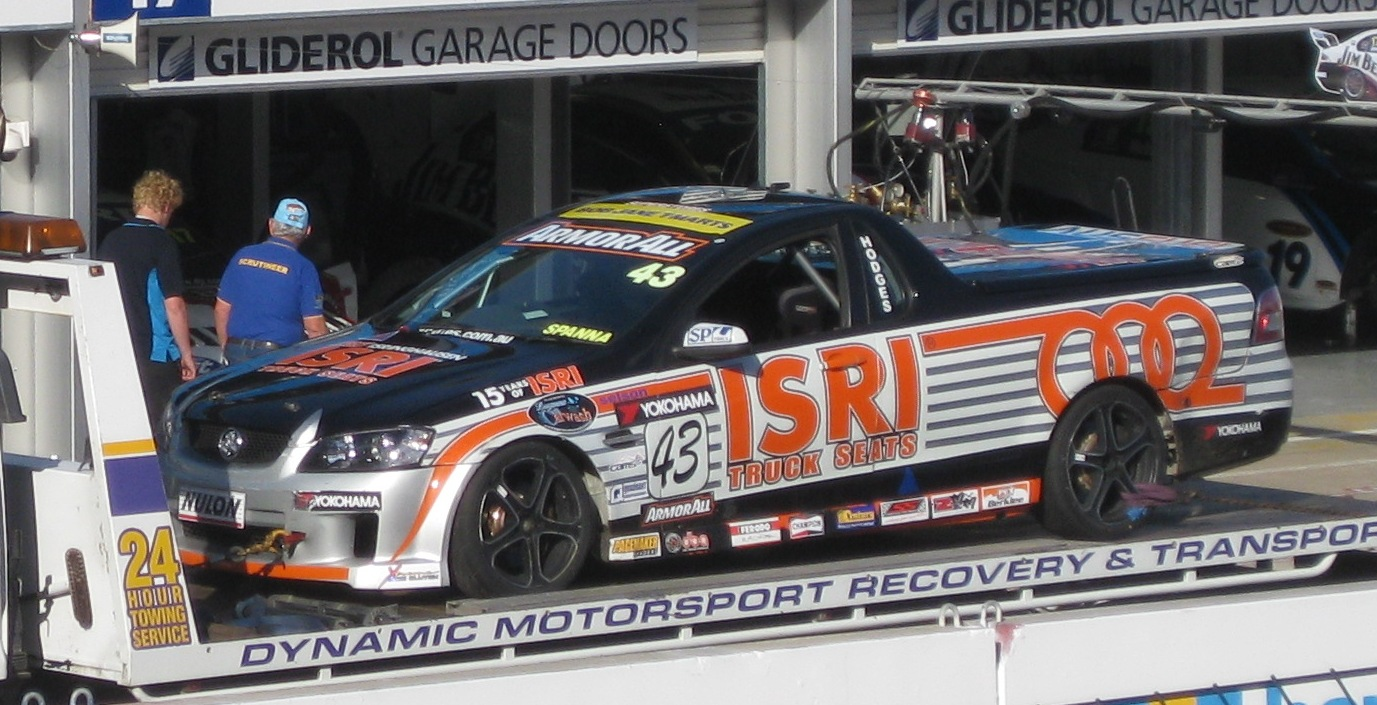 Holden VE SS Ute of Steve Hodges at the Adelaide Parklands Circuit